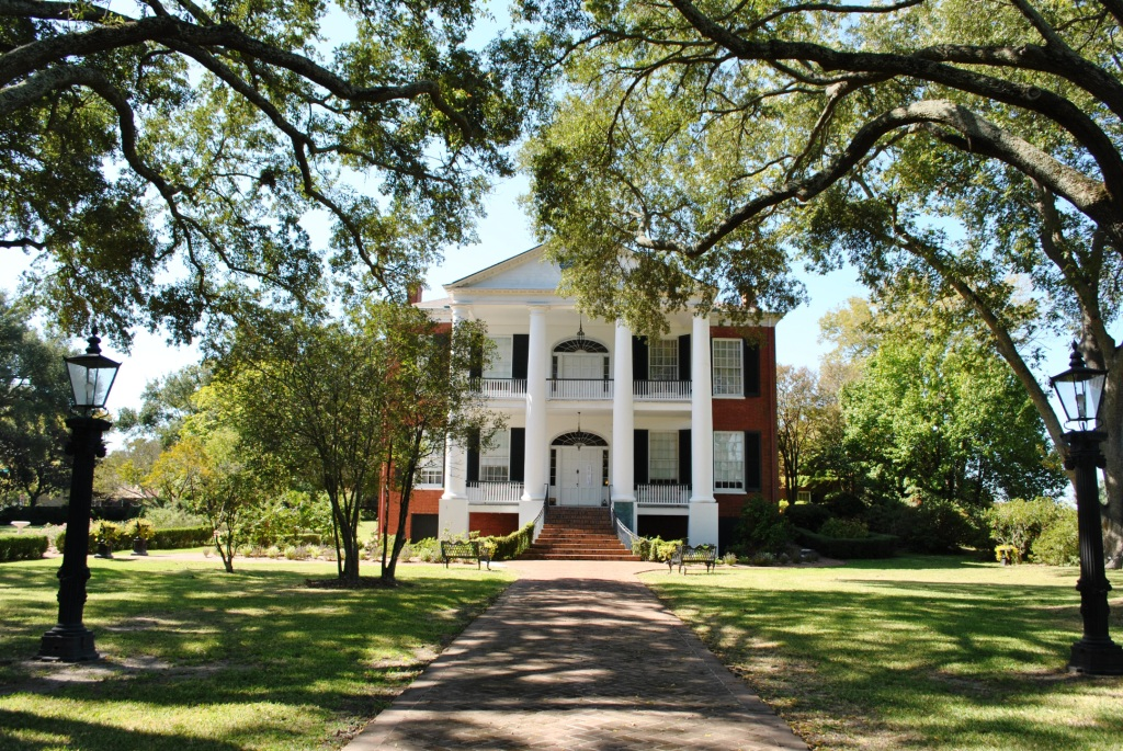 Rosalie